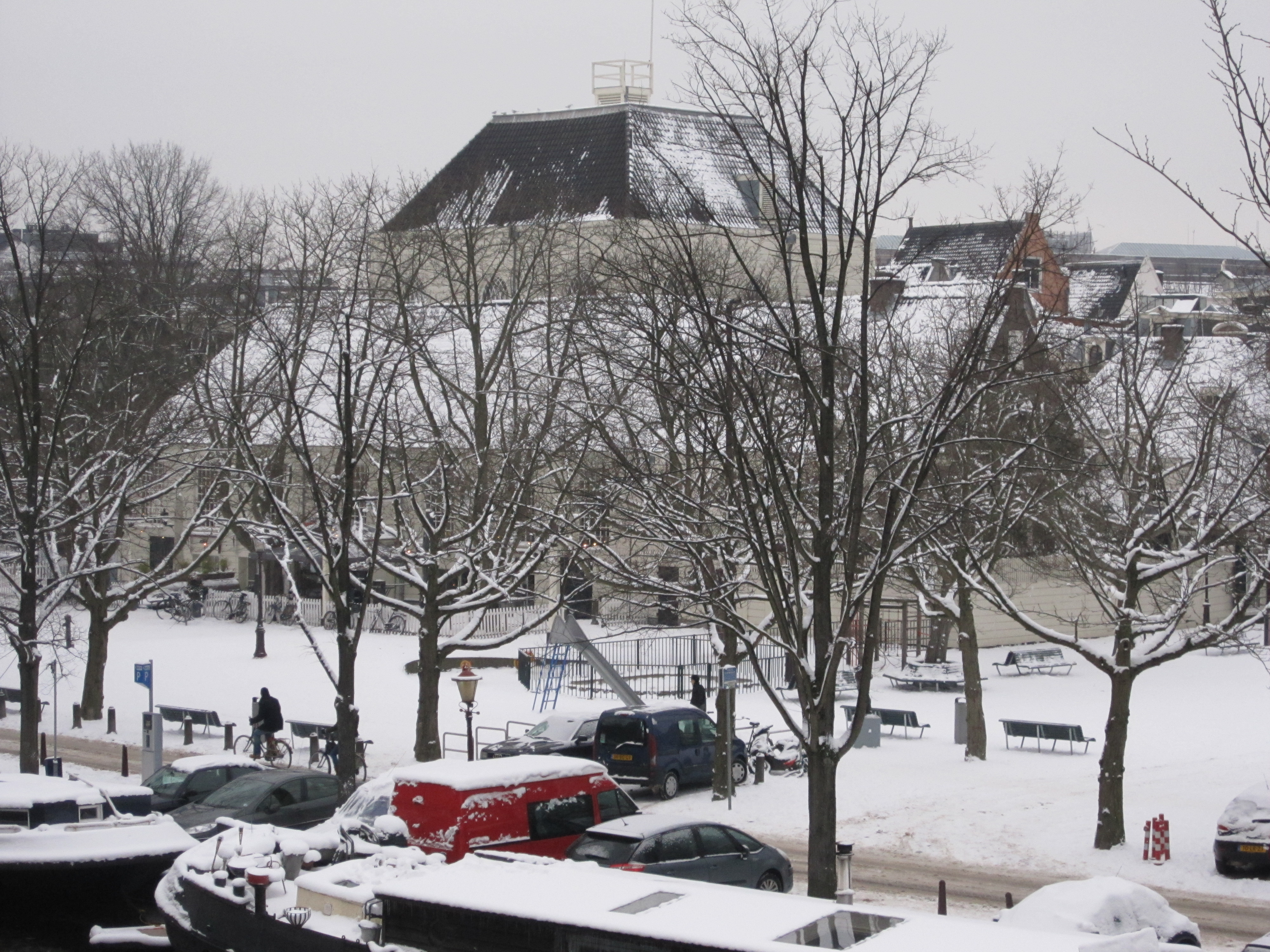 Amstelchurch Amsterdam (Neth.) south-east side